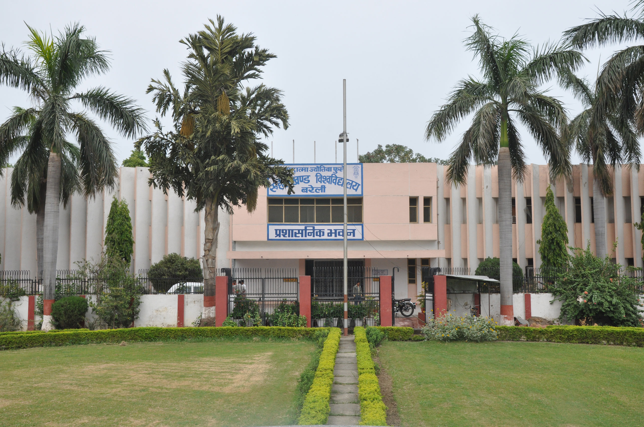 M.J.P. Rohilkhand University, Administrative Block